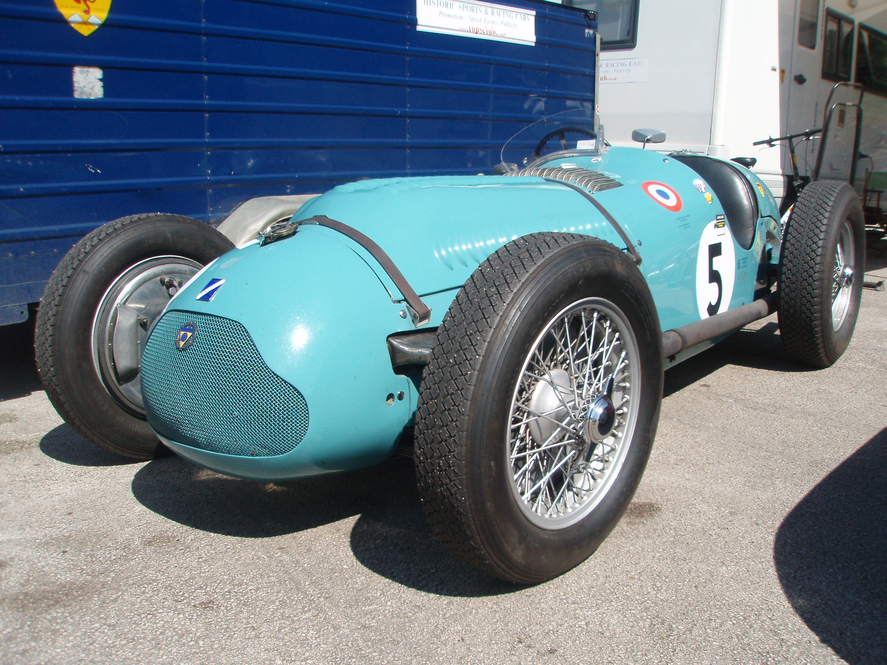 A Talbot-Lago T26C Rosier from 1951 in the paddock of Dijon-Prenois during the 2011 Grand Prix de l'Âge d'Or. This particular car was driven by Louis Rosier and Juan Manuel Fangio during the 1951 24 hours of Le Mans.